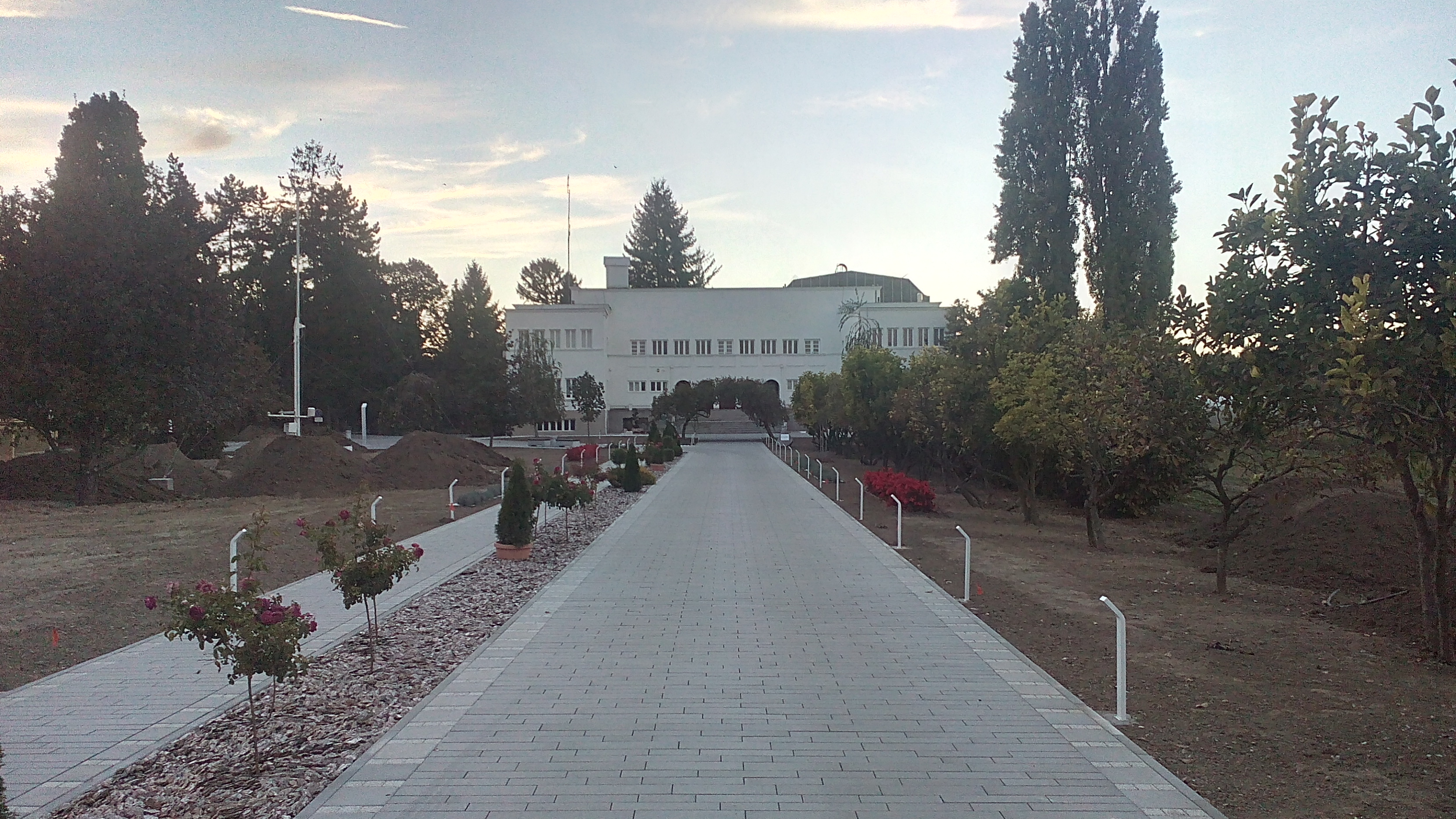 Entrance of Fruit Research Institute Cacak